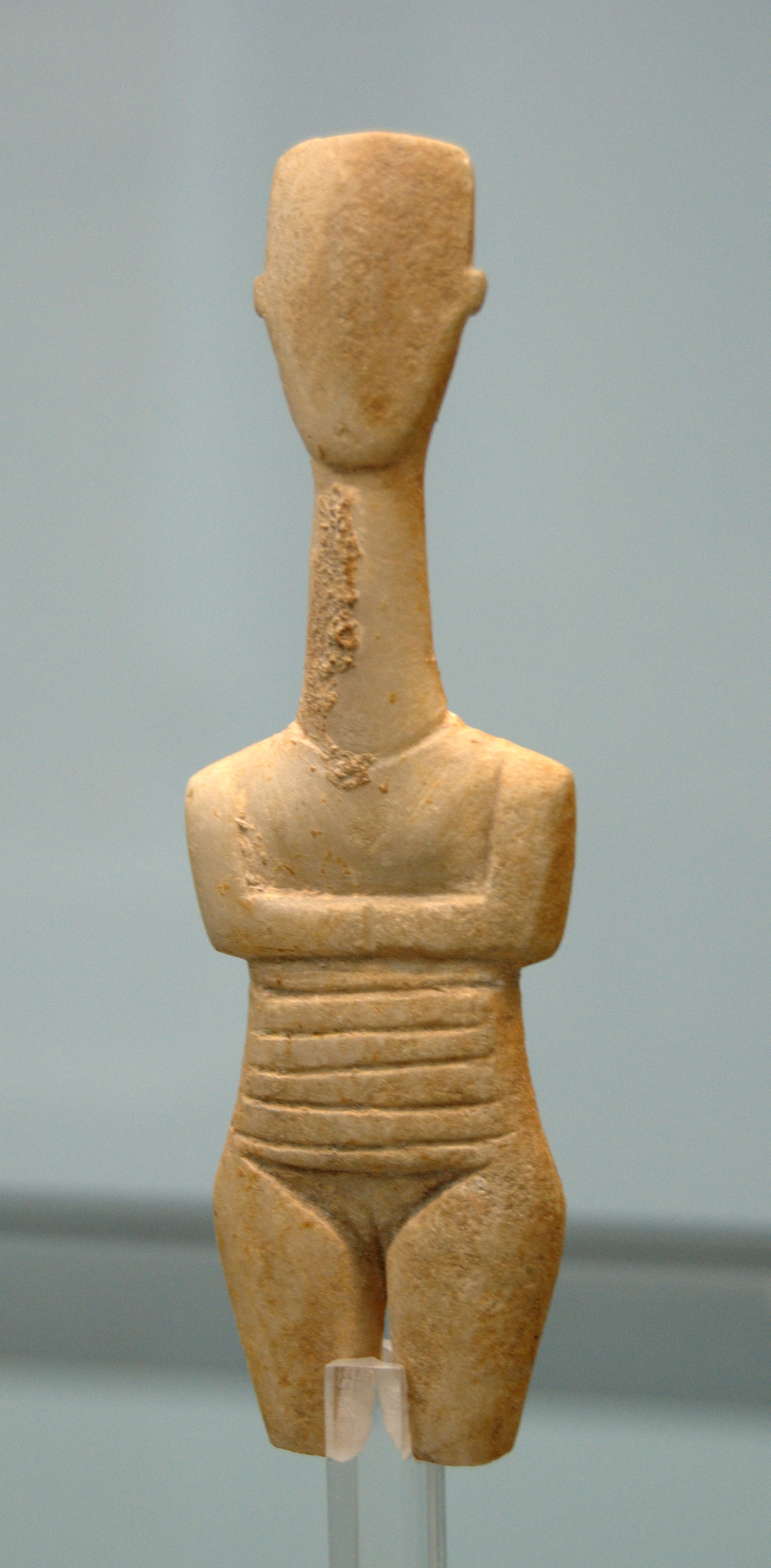 Pregnant woman: fertility is suggested by vertical scratches, an exception among Cycladic idols. 3rd millenary BC.